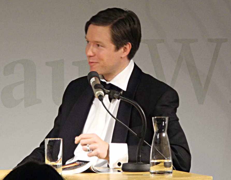 Elmar Mayer-Baldasseroni in the Vienna Literature House, giving a lecture out of his new book.